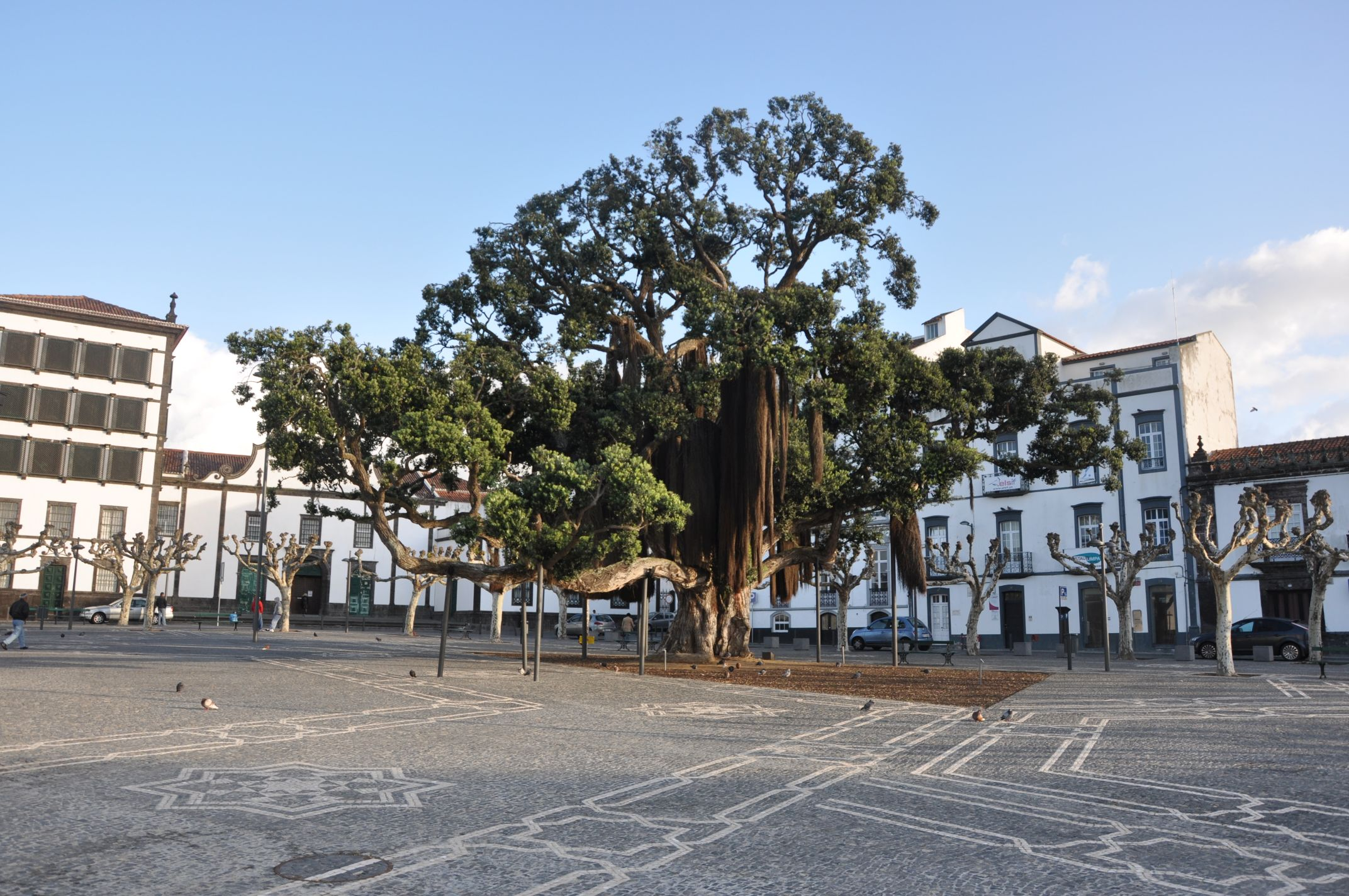 A tree (Metrosideros excelsa) in Praço 5 de Outubro, Ponta Delgada, Isla Sao Miguel, Azores